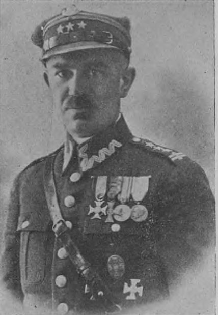 Colonel Emil Czaplinski - commander of the 2nd Infantry Regiment